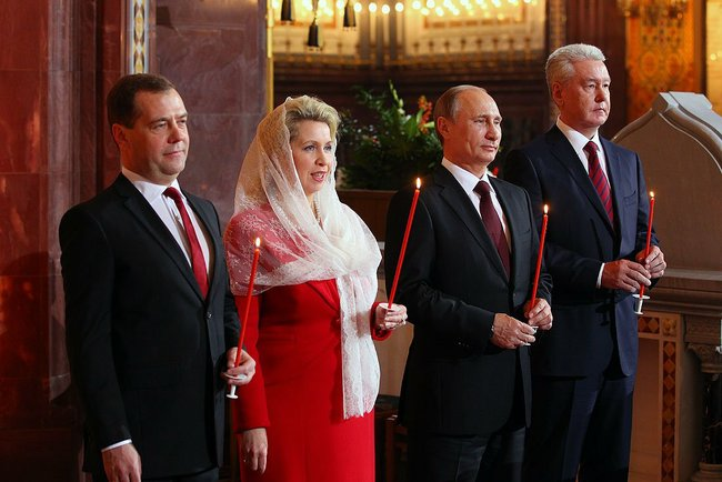 At an Easter service in the Cathedral of Christ the Saviour in Moscow, Russia, 2013-05-05. Vladimir Putin with Prime Minister Dmitry Medvedev, his spouse Svetlana Medvedeva and Moscow Mayor Sergei Sobyanin.